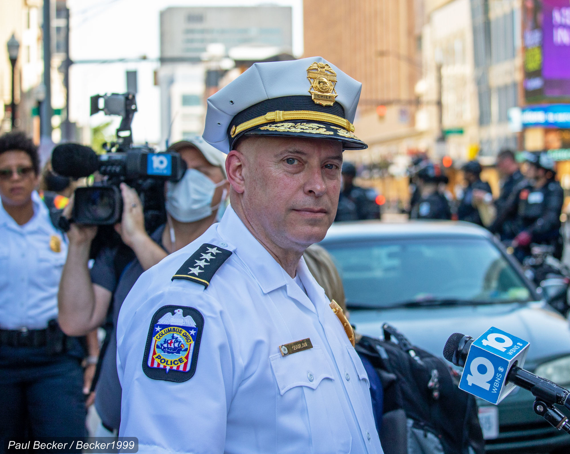 Columbus Protests: Day 7 (6th downtown)